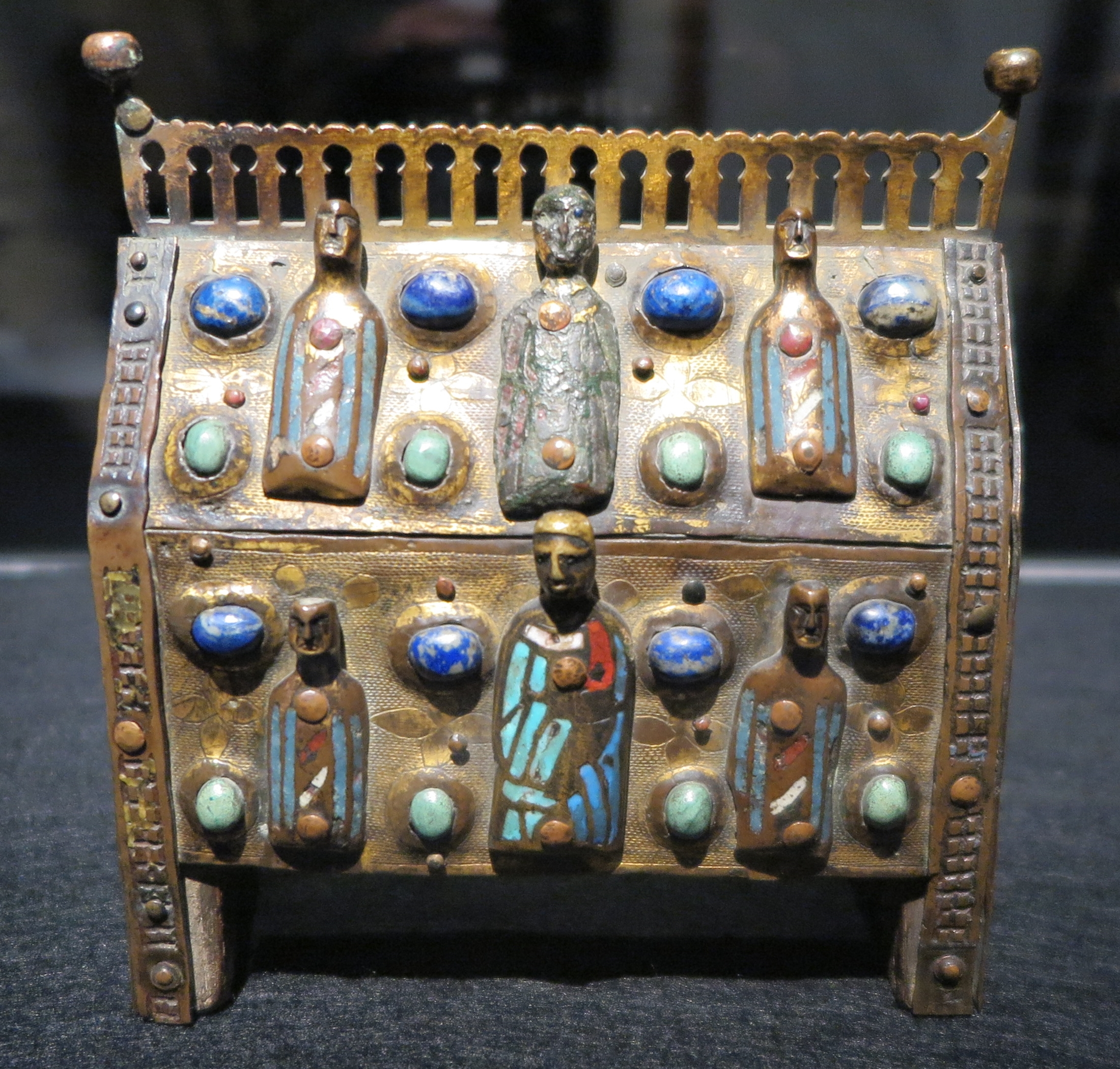 Reliquary shrine; private Donation in 1997